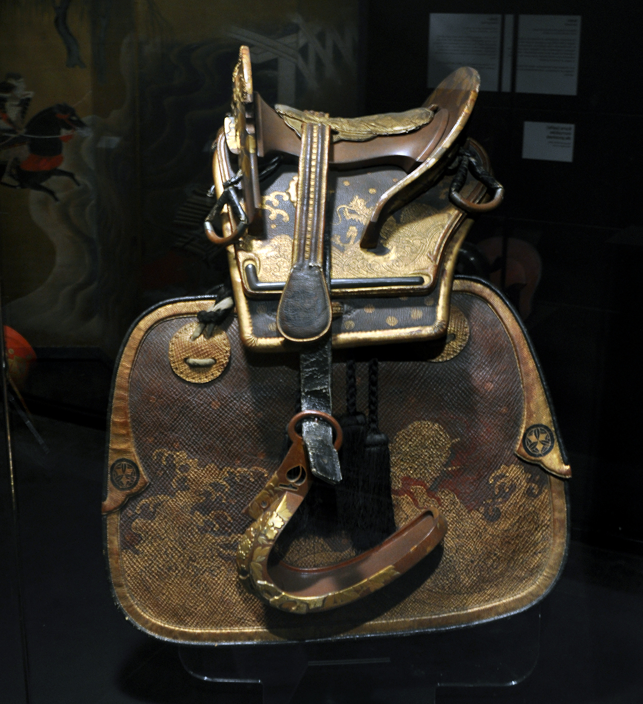 Saddle (kura) and stirrups (abumi) for a samurai's horse, signed by Kakihan, about 1670 . Ann and Gabriel Barbier-Mueller Museum, Dallas (Texas) ; the photograph was taken during an exhibition in the Musée des Arts Premiers in Paris.